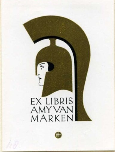 Exlibris of Amy van Marken. Design by Stefan Schlesinger, 1929